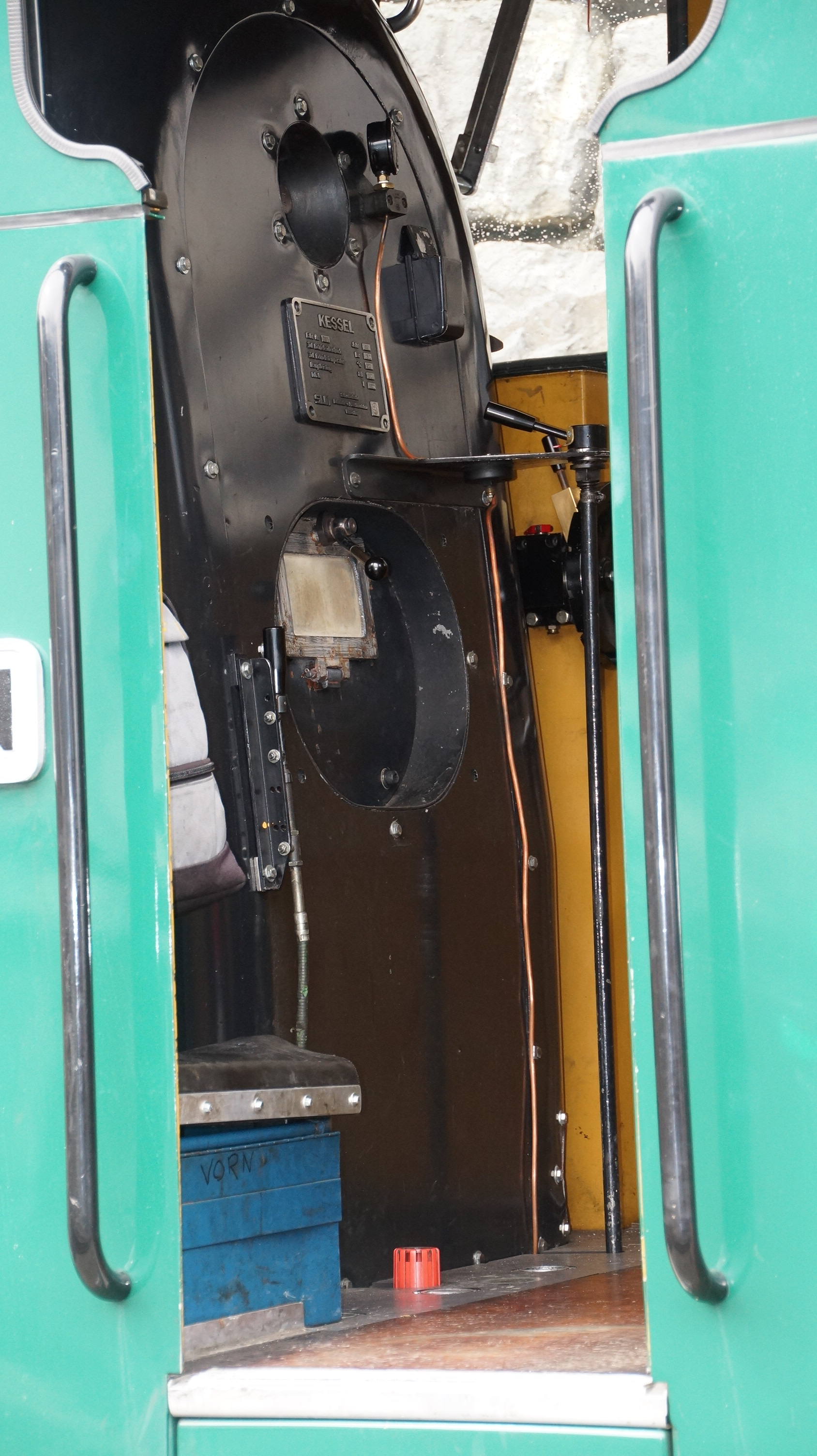 Cab of Brienz Rothorn Bahn locomotive No. 12